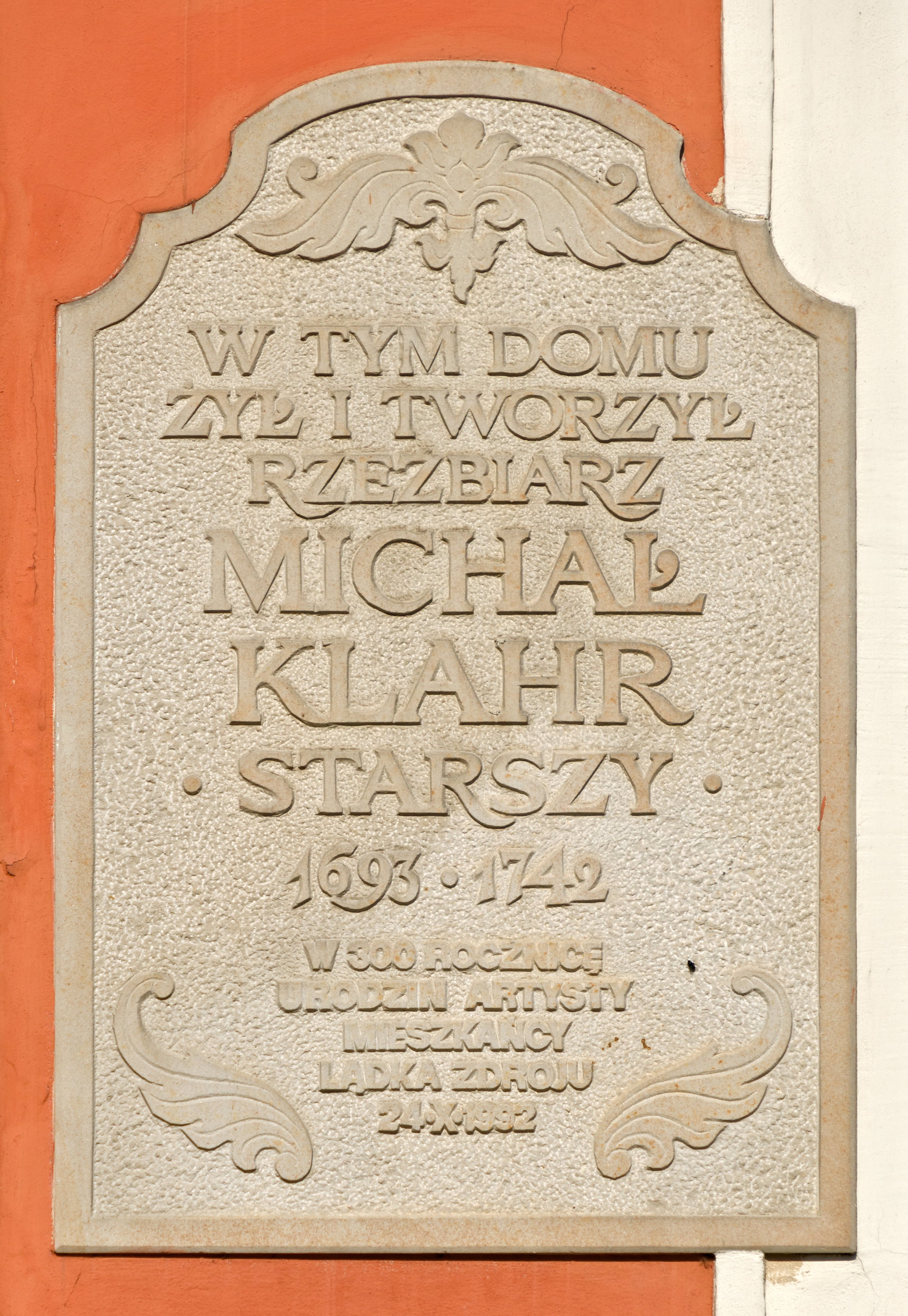 Klahr House in Lądek-Zdrój